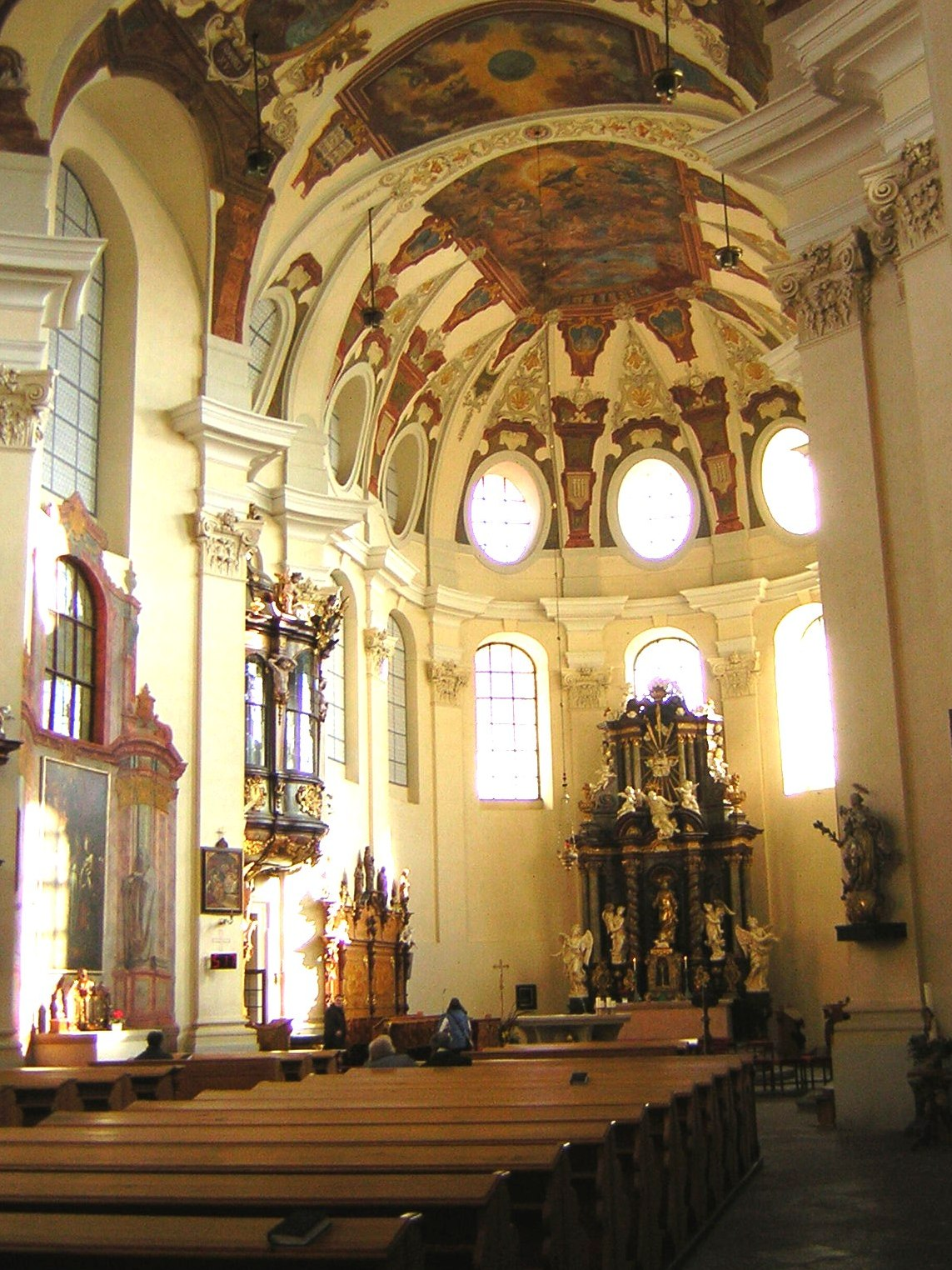 Praha_Břevnov_St.Margaret church interior